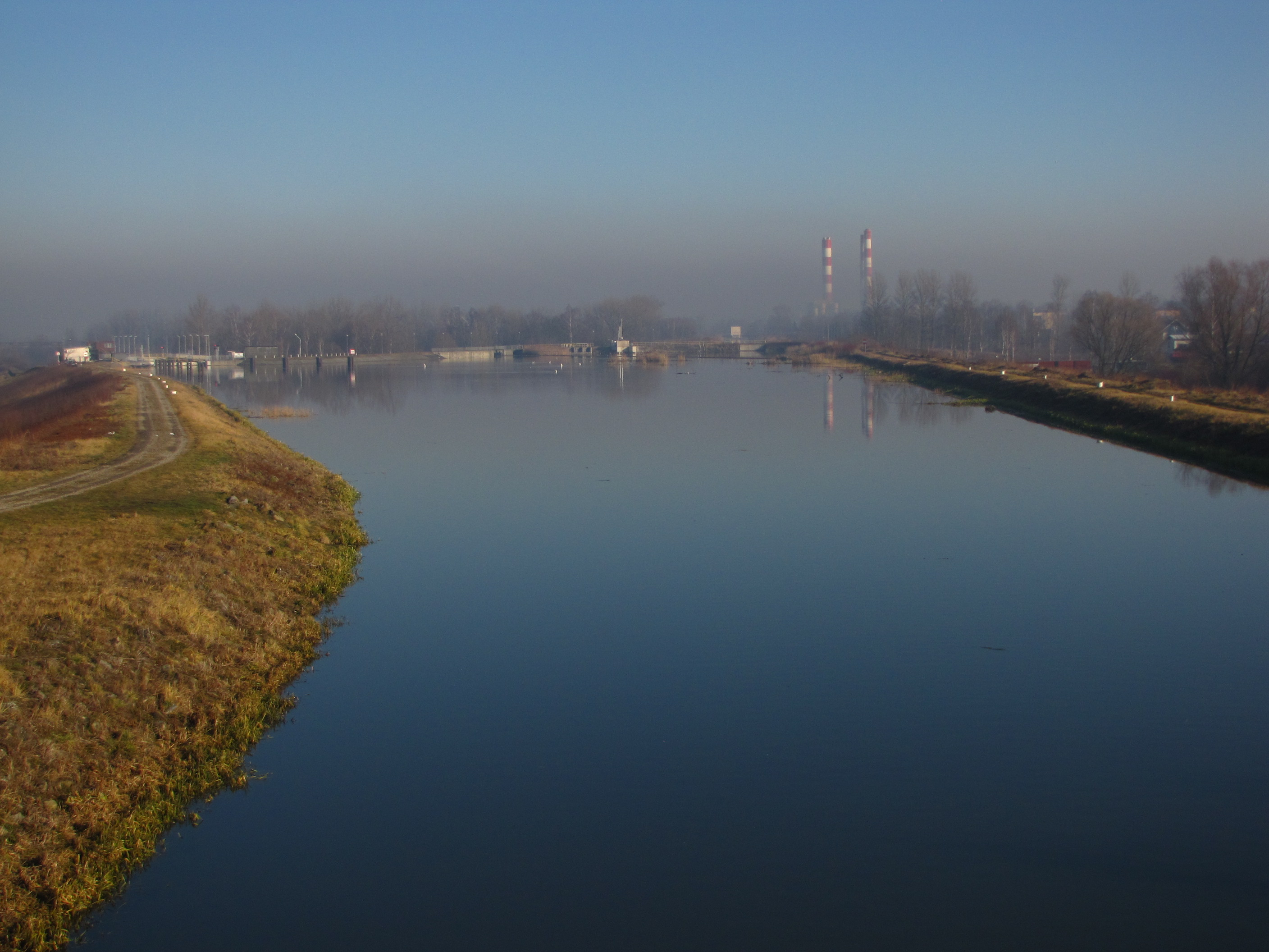 Łączany - Skawina Canal and water gate in Borek Szlachecki.